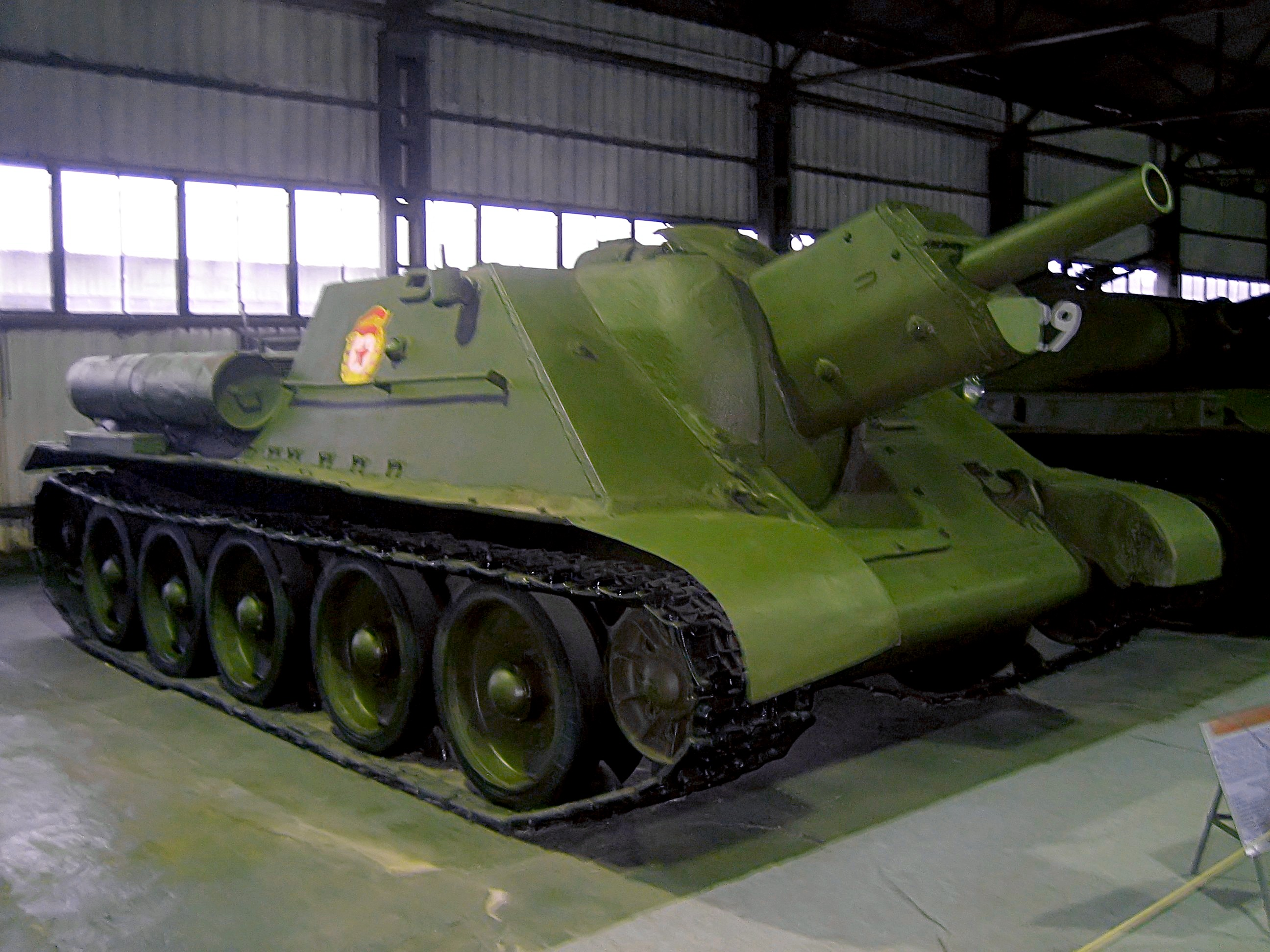 Soviet self-propelled gun SU-122, displayed in Kubinka Tank Museum. Photo taken on December 12, 2006. Source: Photo by me, User:Saiga20K.